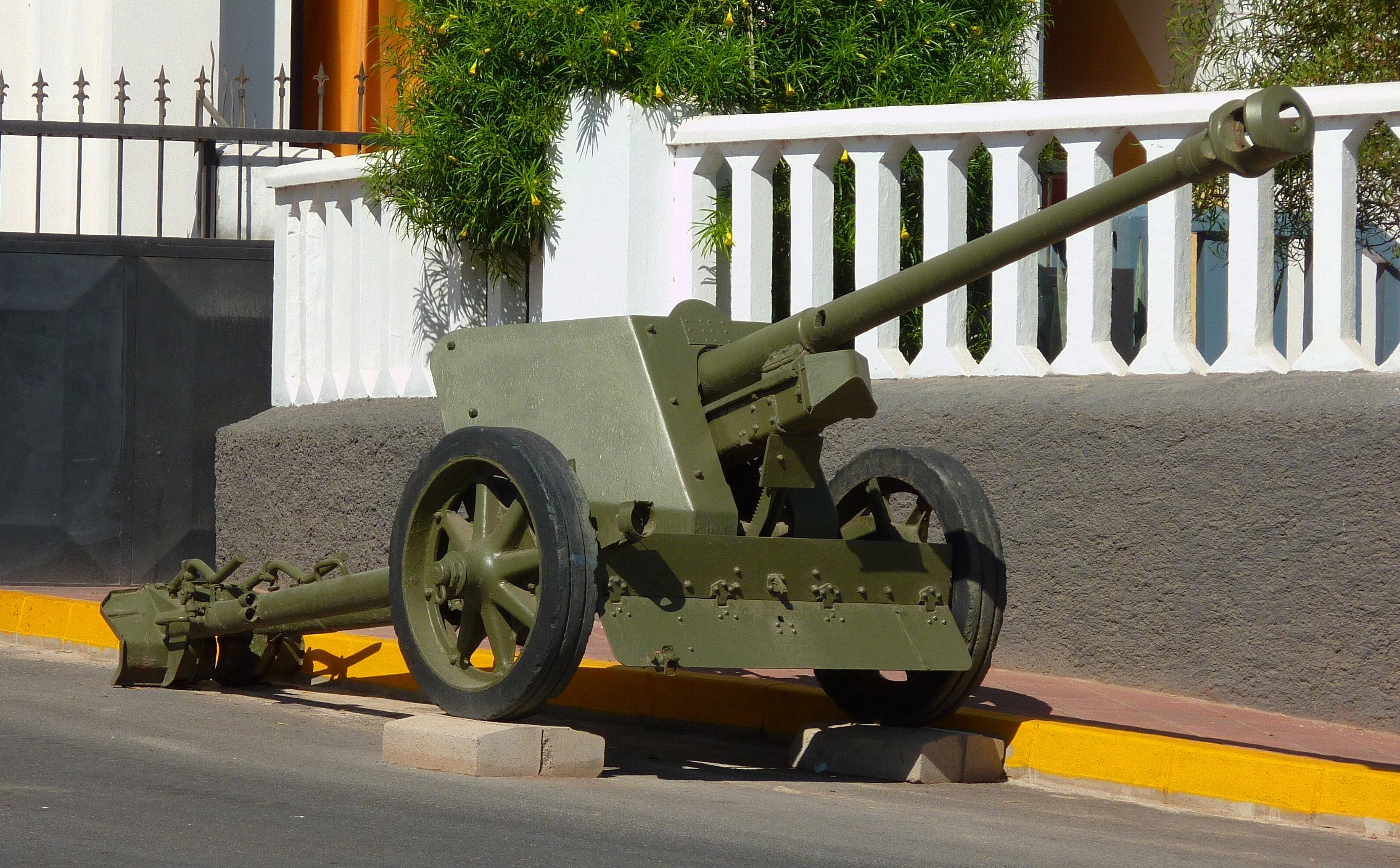 PaK 40 of the Spanish Army